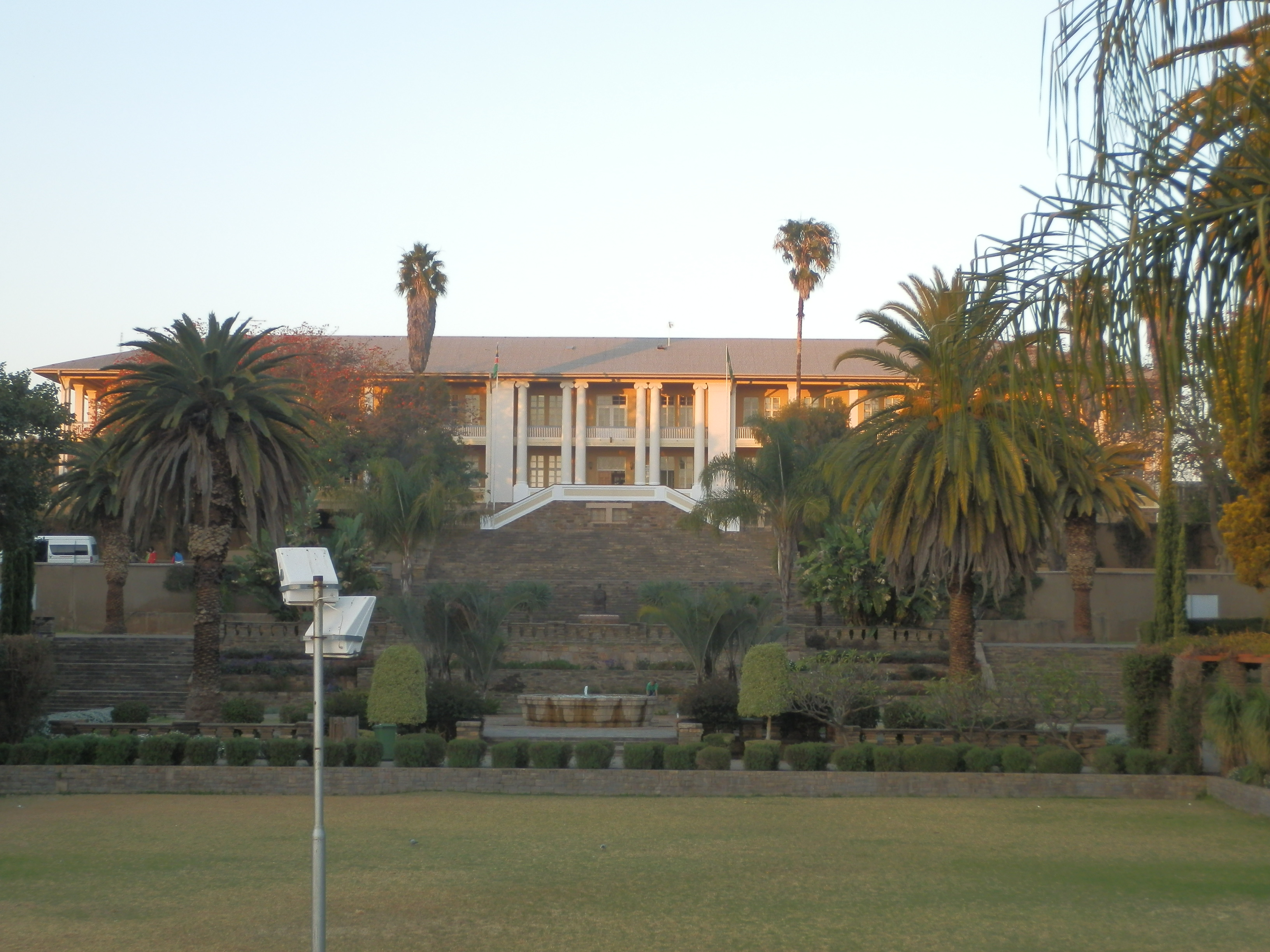 Tintenpalast, seat of the namibiam parliament